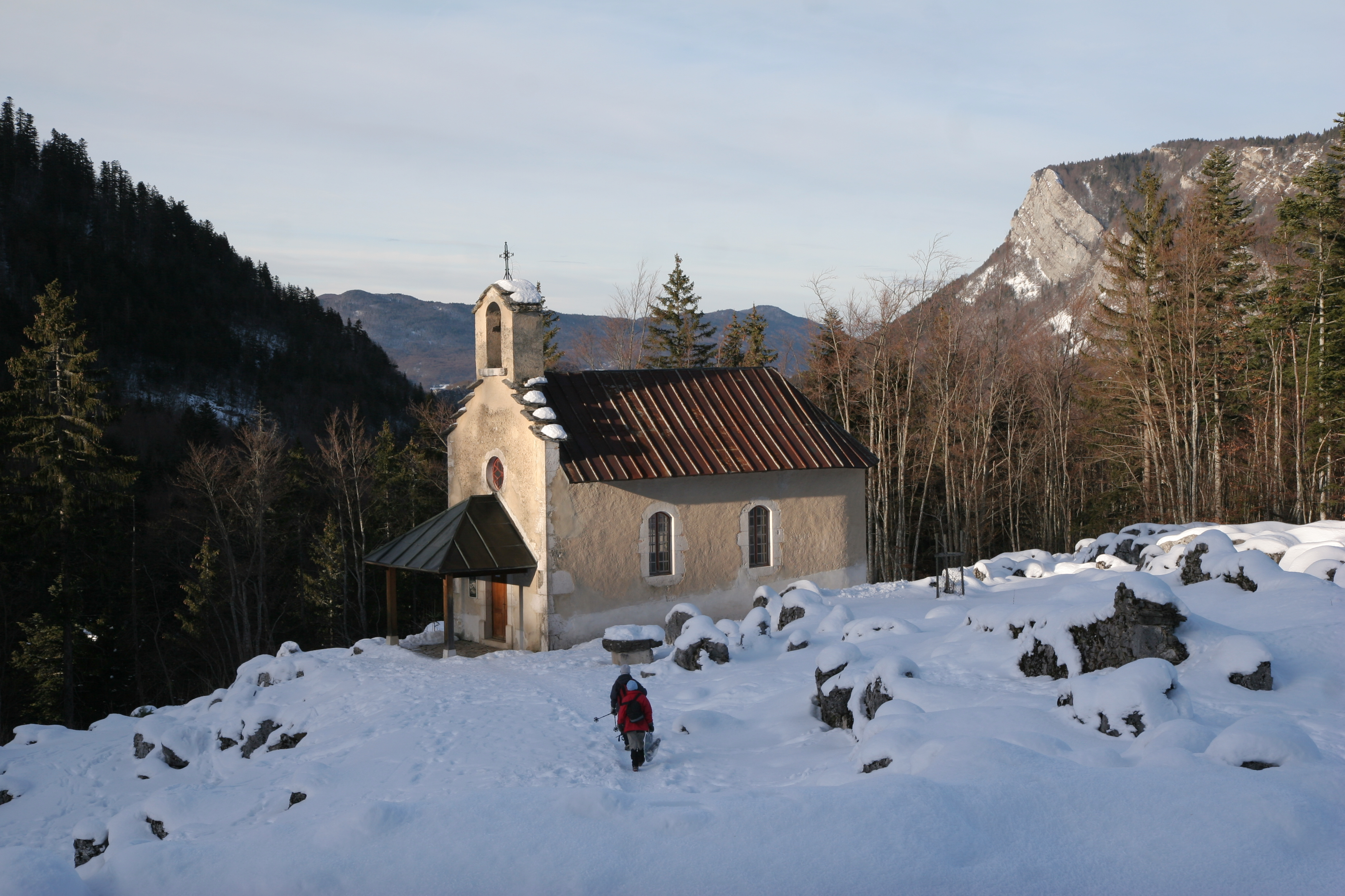 The chapel at Valchevrière, the only building in the hamlet that was not razed by the nazis